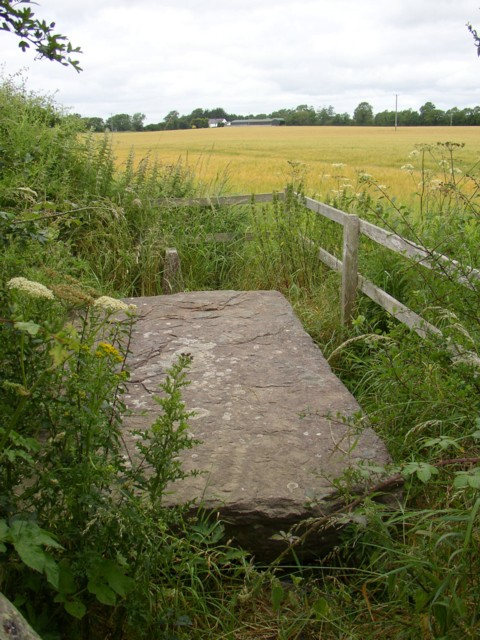 Ogham stone by side of lane, Ballyboodan, Knocktopher, Co. Kilkenny. This is described here: as being 2.31 x 1.75 x 0.23m and having an ogham inscription translated by Hitchcock in 1849 as "Here lies Corbmac ó Cuinn". The NGR of S5236 given must be rounded up.